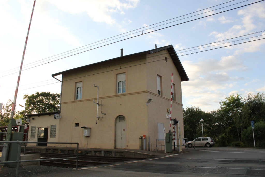 Capellen Station on the line Arlon-Luxembourg.